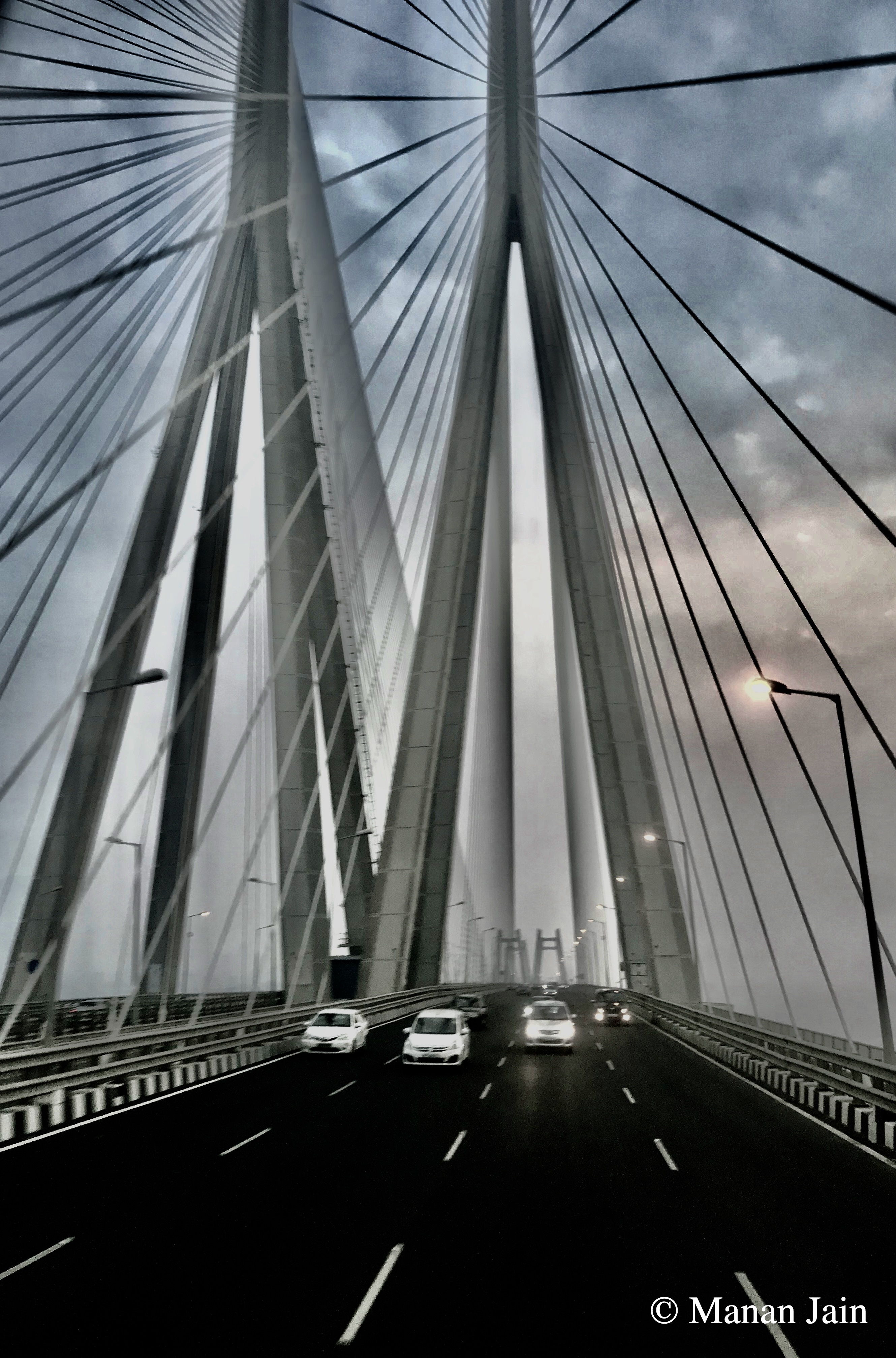 Bandra Worli Sea Link, Mumbai